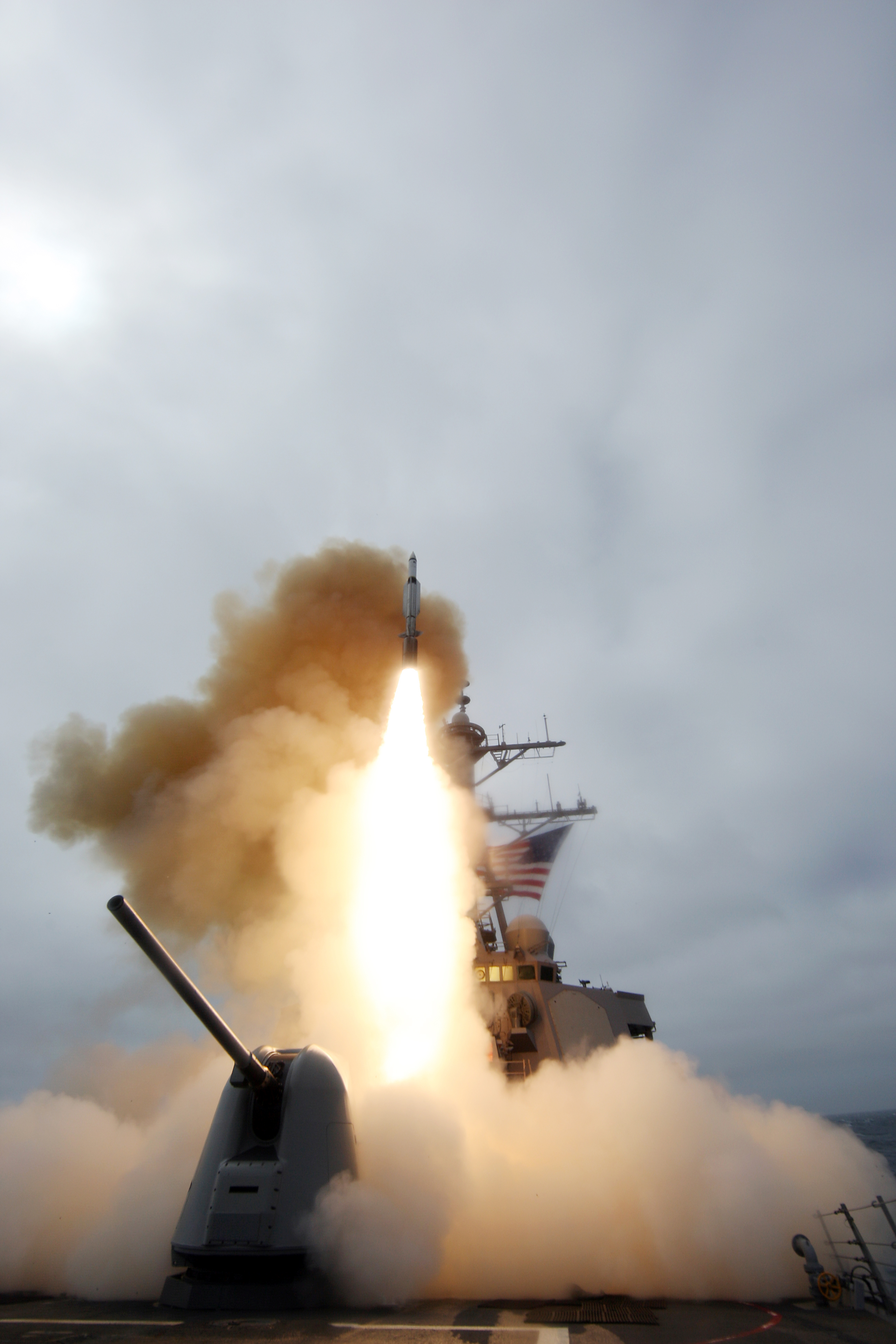 PACIFIC OCEAN (March 26, 2009) The San Diego-based guided-missile destroyer USS Benfold (DDG 65) fires a missile Thursday, March 26, 2009 during training exercise Stellar Daggers in the Pacific Ocean. Benfold engaged multiple targets with Standard Missile-2 (SM-2) Block IIIA and modified SM-2 BLK IV missiles. The overall objective of Stellar Daggers was to test the Aegis system's sea-based ability to simultaneously detect, track, engage and destroy multiple incoming air and ballistic missile threats during terminal or final phase of flight. The Benfold's Aegis Weapons System successfully detected and intercepted a cruise missile target with a SM-2 BLK IIIA, while simultaneously detecting and intercepting an incoming SRBM target with a modified SM-2 BLK IV. This is the first time the fleet has successfully tested the Aegis system's ability to intercept both an SRBM in terminal phase and a low-altitude cruise missile target at the same time. (U.S. Navy photo/Released)